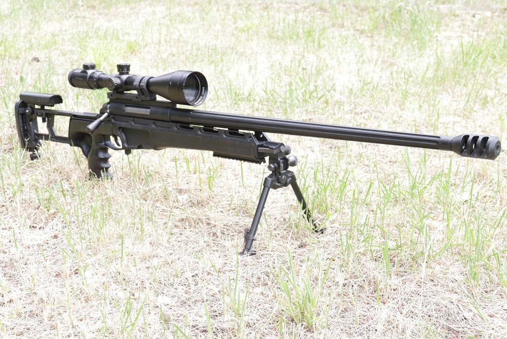 satevari-2 sniper rifle, made by georgia stc delta